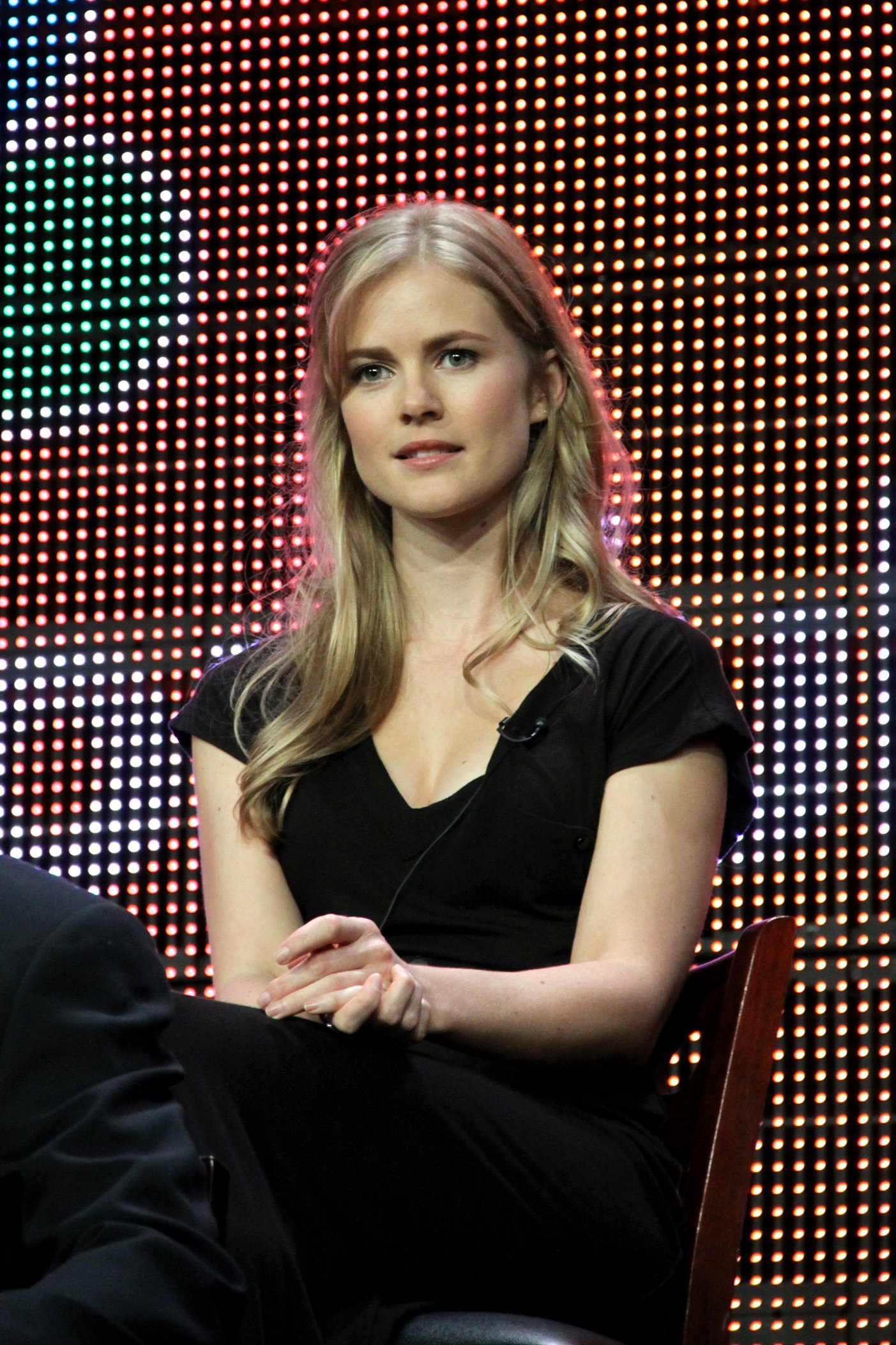 Australian actress Pippa Black at the Television Critics Association summer 2010 sessions. This photograph was taken by Thomas Attila Lewis